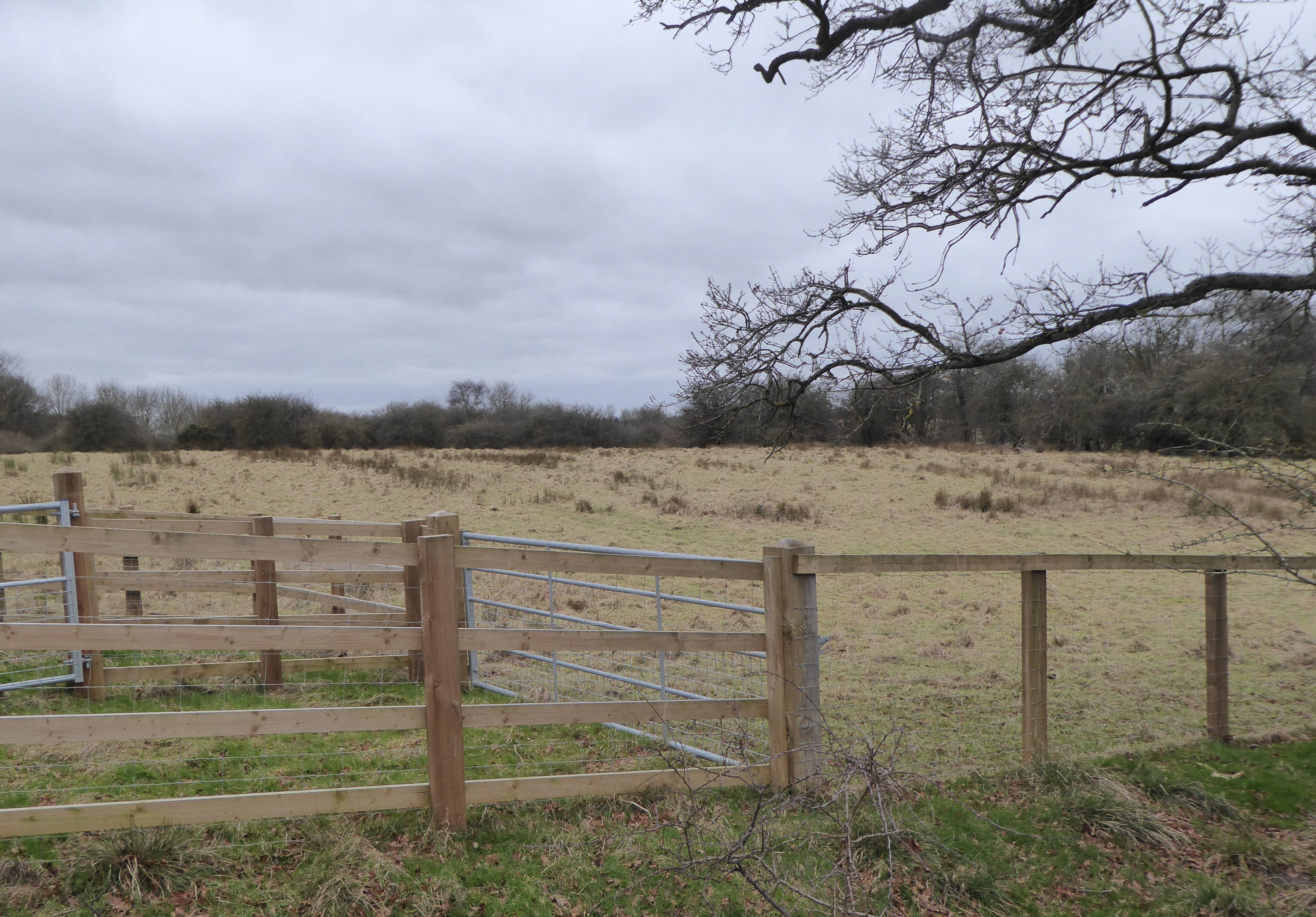 High Wood and Meadow is a biological Site of Special Scientific Interest east of Farthingstone in Northamptonshire. It is managed by the Wildlife Trust for Bedfordshire, Cambridgeshire and Northamptonshire.